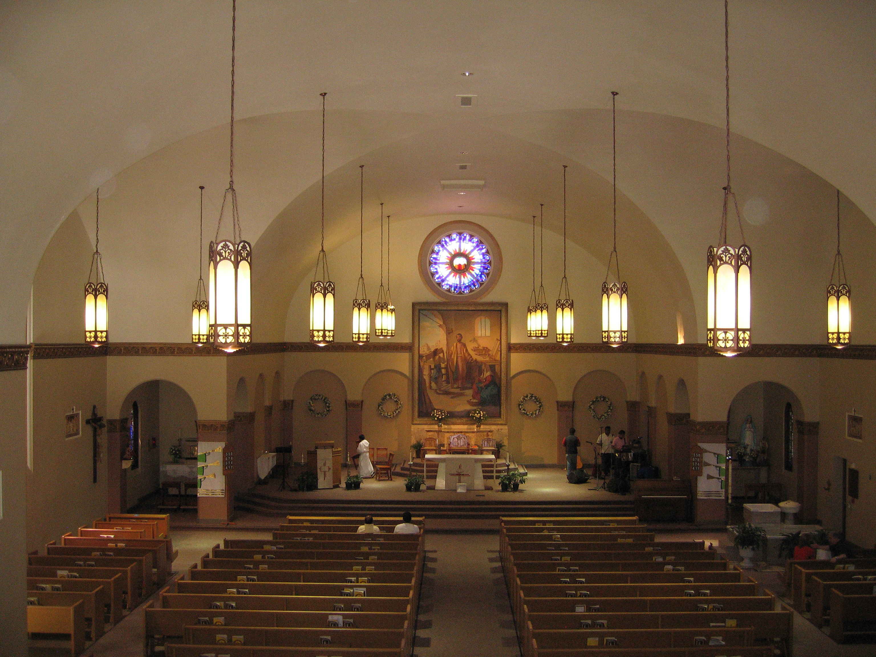 Altar of St. Joseph Parish Church, Mountain View, CA